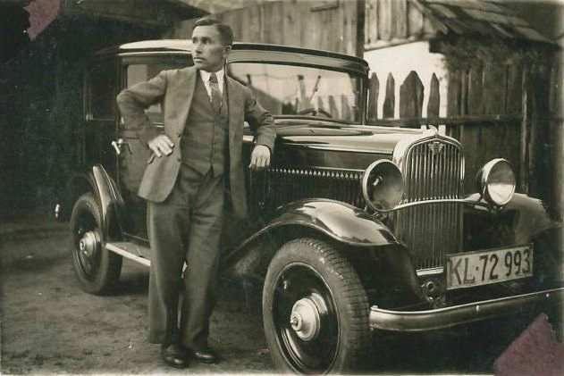 Photography of Polski Fiat 508-I. It was taken in Skarzysko-Kamienna, Poland in 1934.